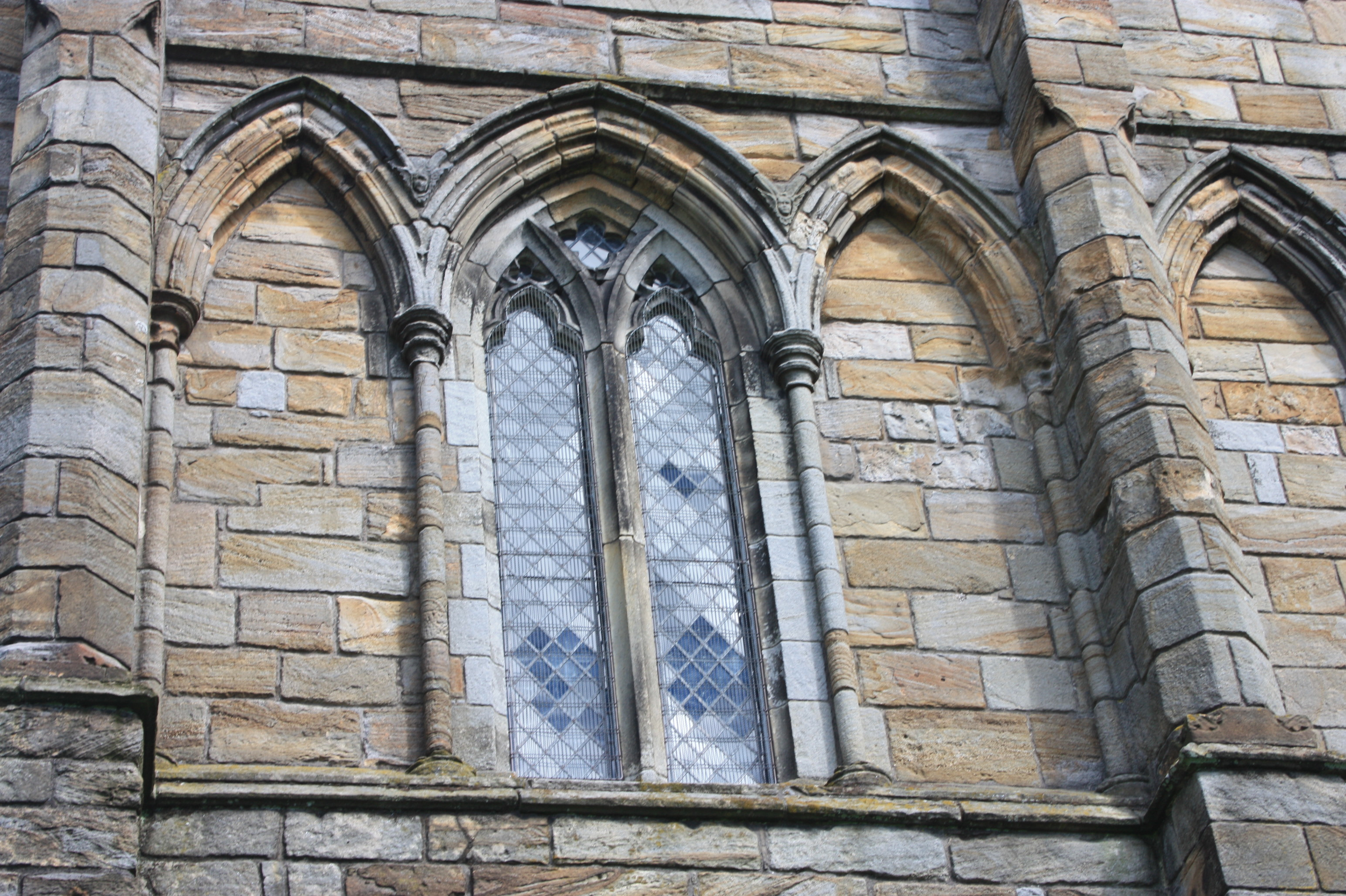 Window detail at Cambuskenneth Abbey